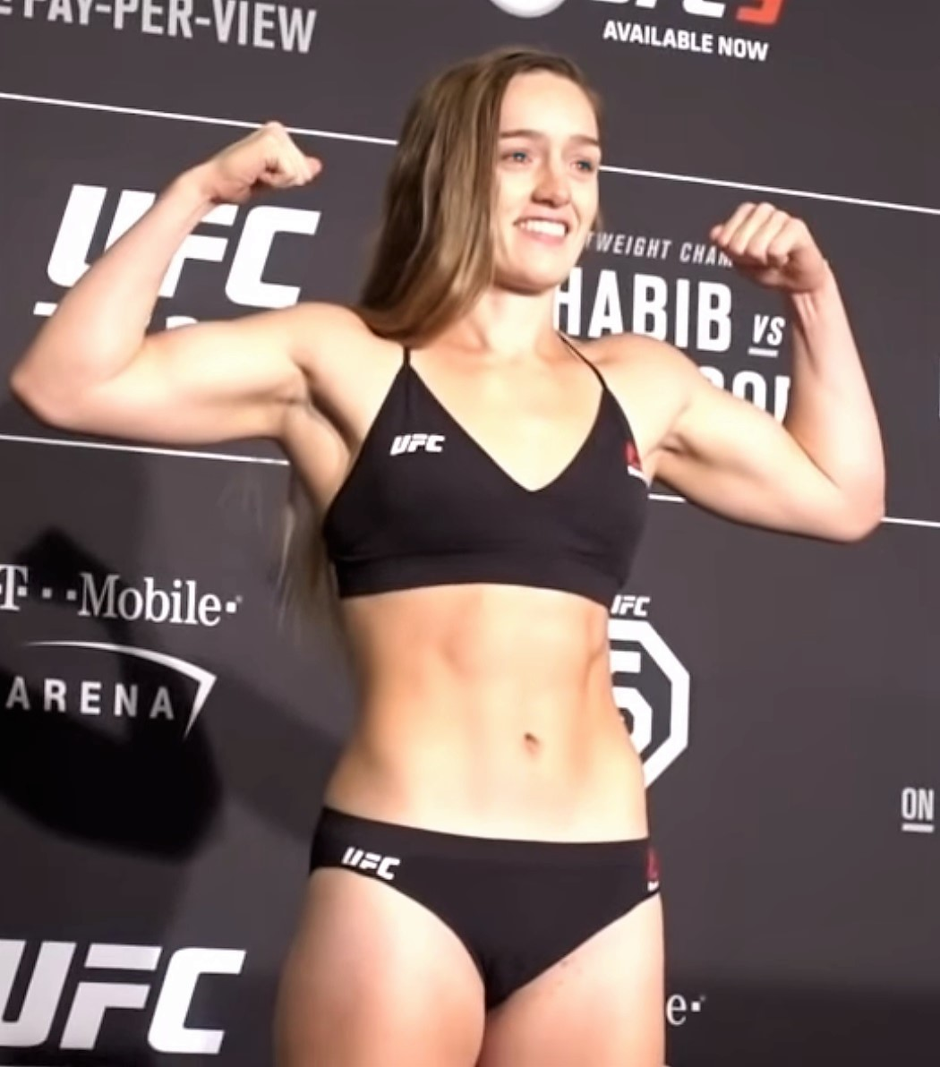 SCARY! ASPEN LADD STRUGGLES AT THE UFC 229 WEIGH-IN American mixed martial artist Aspen Ladd poses after her weigh-in at Ultimate Fighting Championship 229. Visit Europe's biggest MMA website Follow us on our Social Media channels: Facebook: Instagram: Twitter